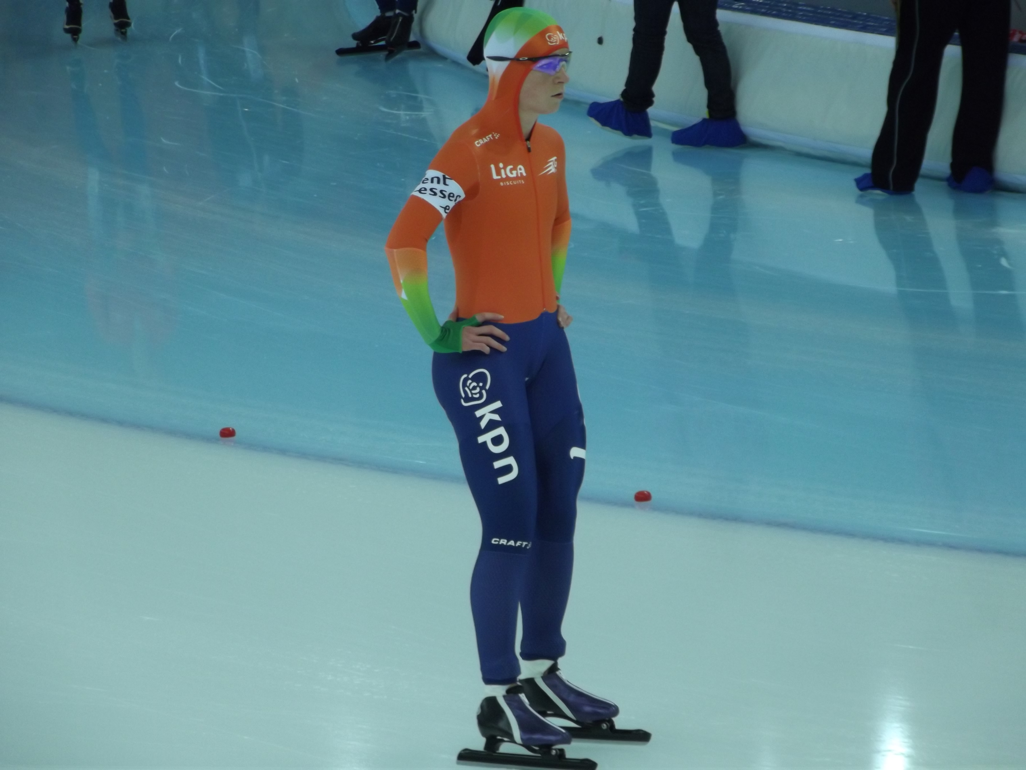 2013 World Single Distance Speed Skating Championships